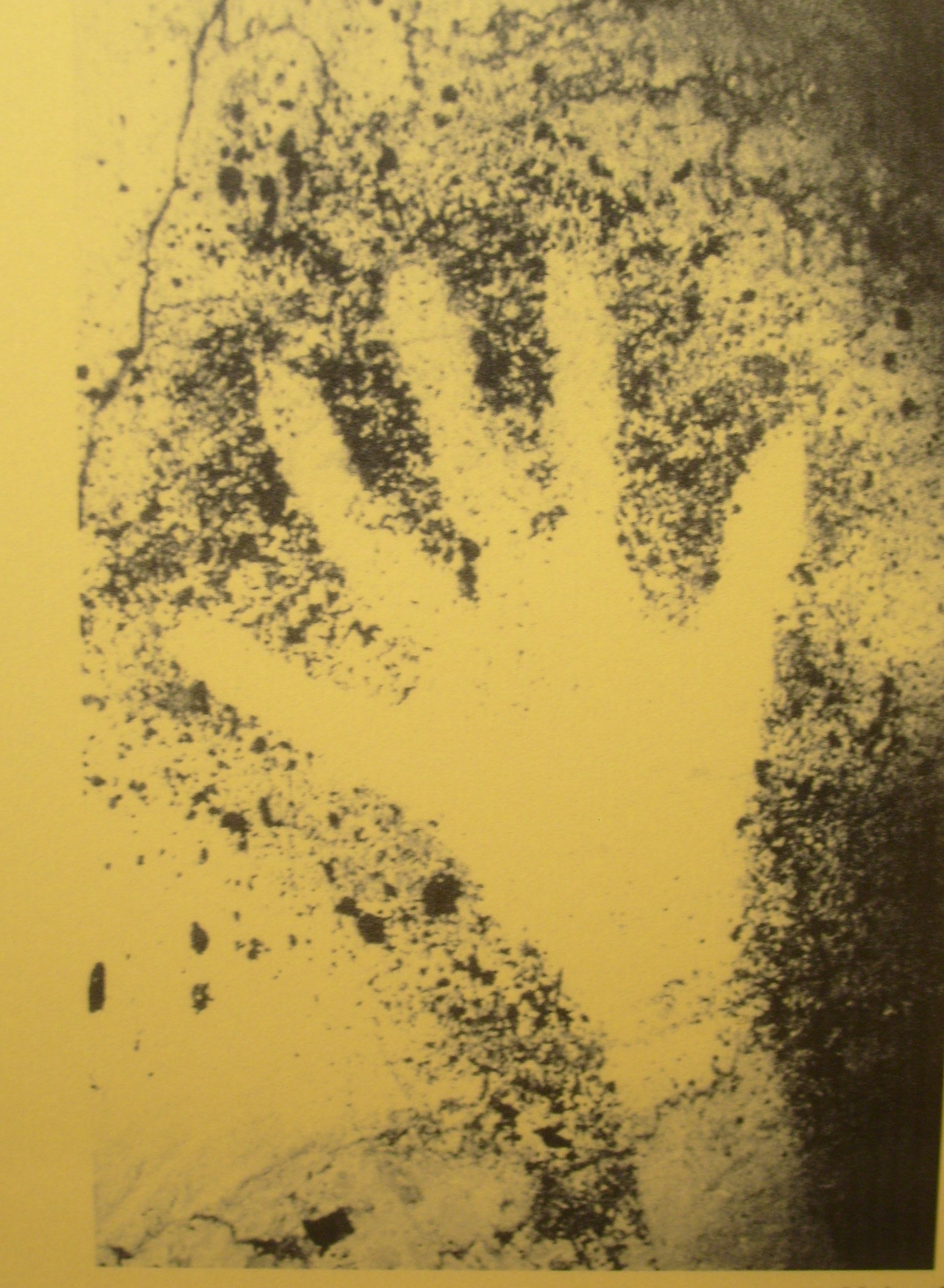 From Cosquer cave, located in the Calanque de Morgiou near Marseille, France. Stencil of a human hand dated 27,000 Before Present Era, shown at the Musée d'Archéologie Nationale (National Museum Archeology). in Saint-Germain-en-Laye, France